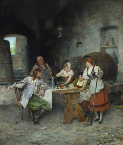 Victor Schivert - The Guest